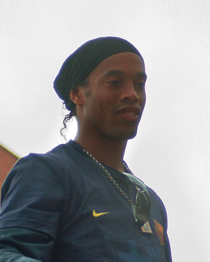 Futbol Club Barcelona's player Ronaldinho during La Liga 2005-2006 celebration.